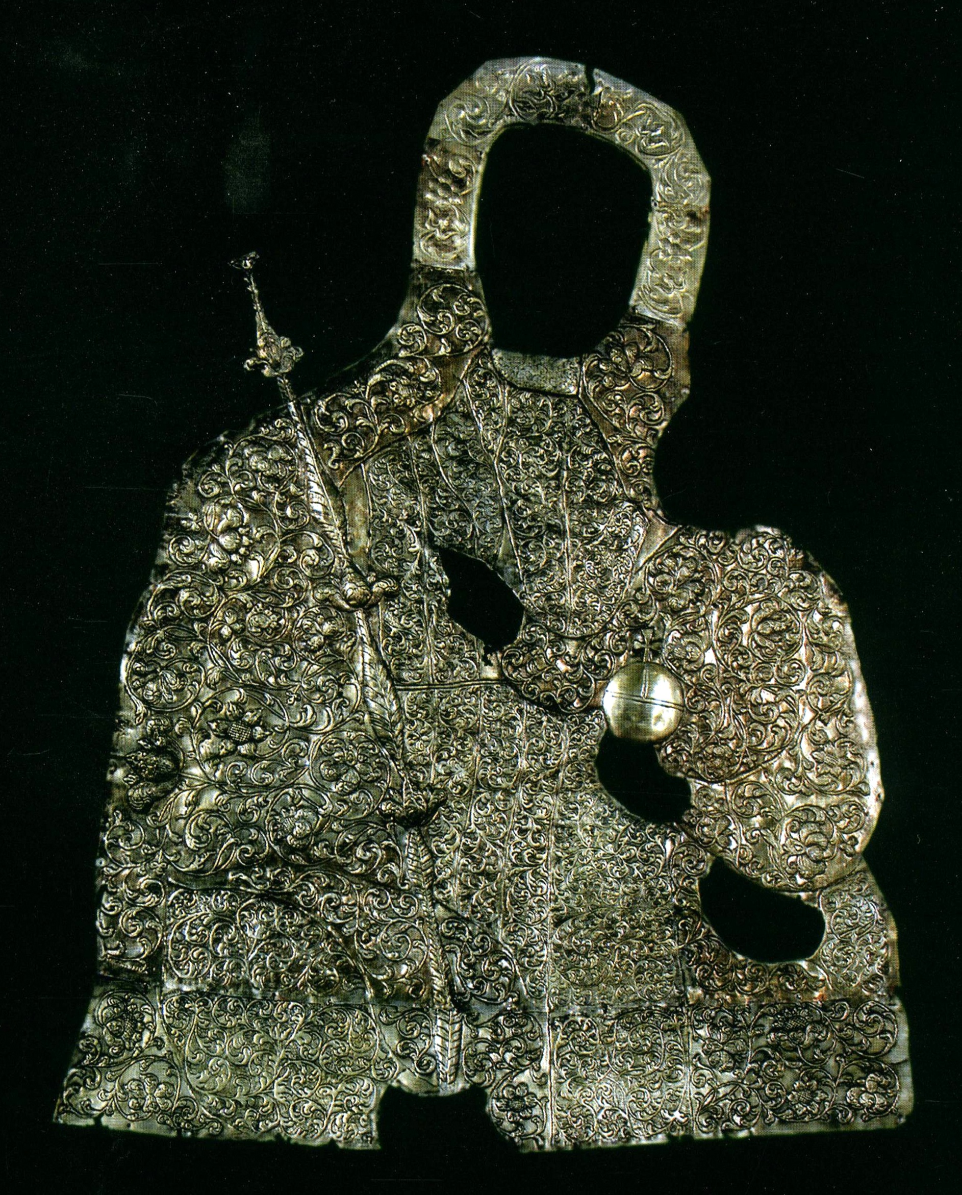 METAL MOUNTING OF ICON THE HOLY VIRGIN OF BIALYNICHY. 2d halfoflhc 17th с. Metal, minting. Cemetery Church, Snou, Niasvizh district, Minsk region.